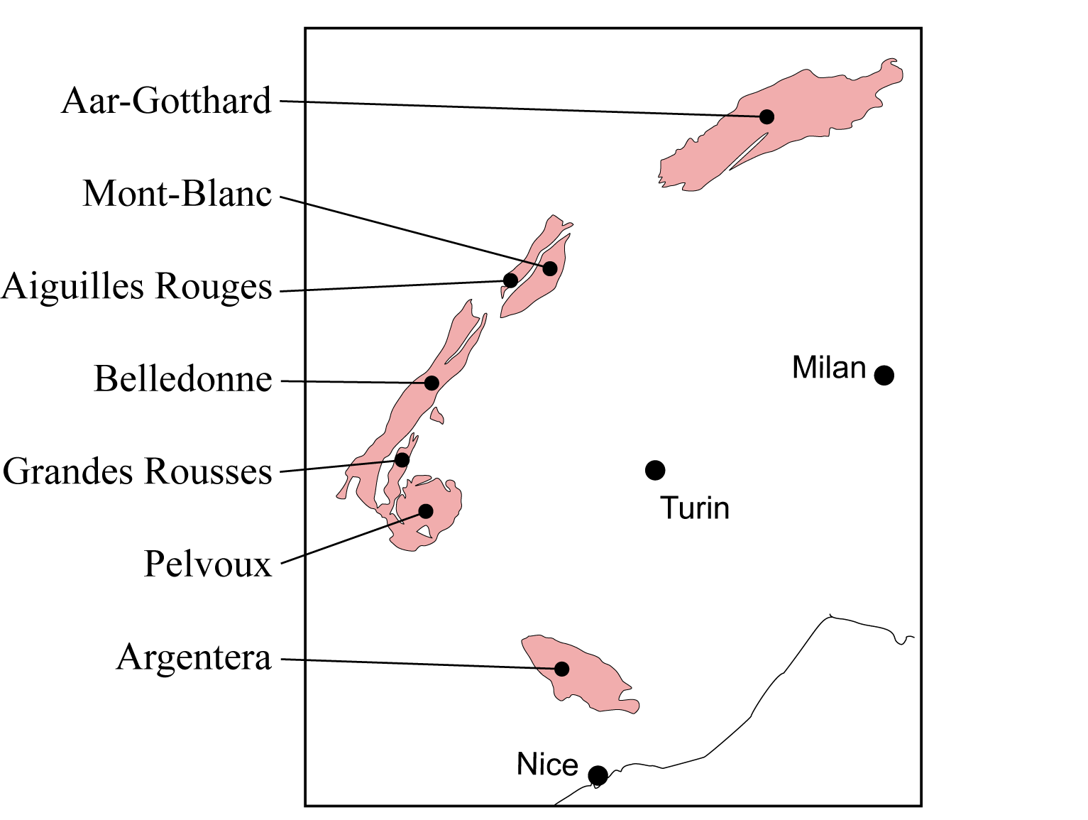 The external crystaline massifs of the European Alps.